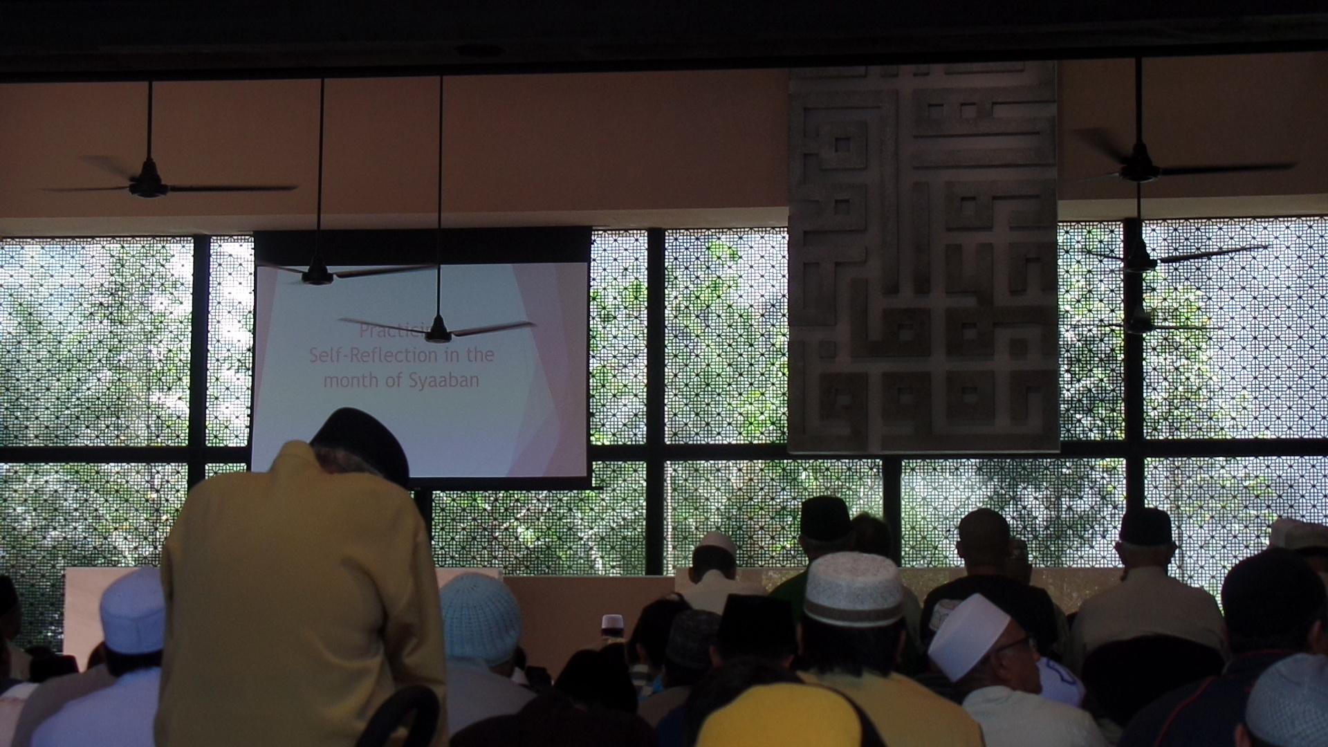 Masjid Al Islah on the Grand Opening